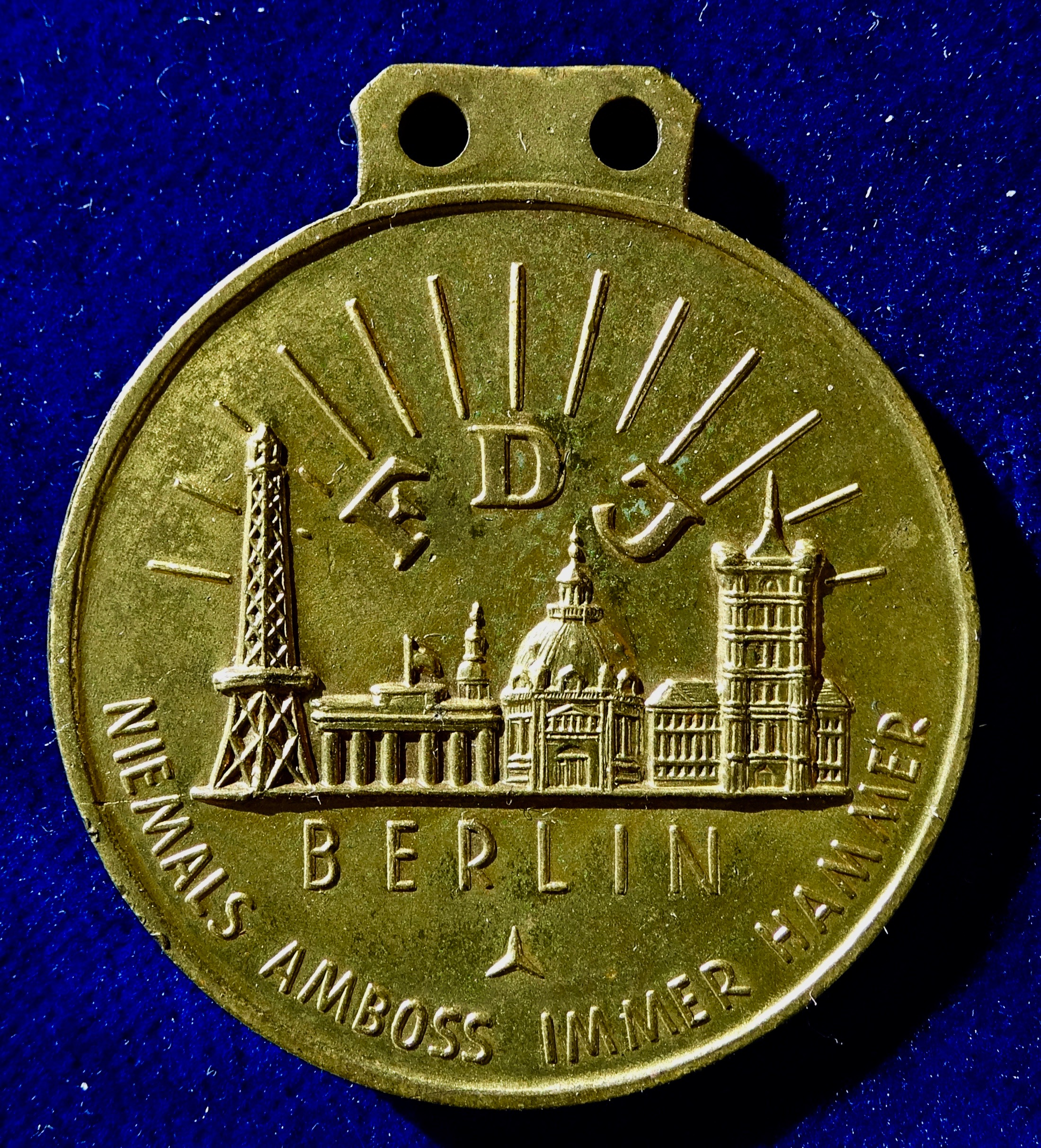 Berlin 1949 FDJ (Free German Youth) Peace Convention Participants Medal Gilt bronze, d. = 41 mm. 2 lines below dove on pillar r.: "24. u. 25. SEPTEMBER 1949. Surrounding: "• FRIEDENSTREFFEN DER DEUTSCHEN JUGEND • IN DER HAUPTSTADT DEUTSCHLANDS •" / Radiant "FDJ" above Funkturm Berlin (Berlin Radio Tower), Brandenburg Gate, Berlin Cathedral, Rotes Rathaus (Red City Hall). 1 line below: "BERLIN", curved below: "NIEMALS AMBOSS IMMER HAMMER". Condition: UNCIRCULATED.